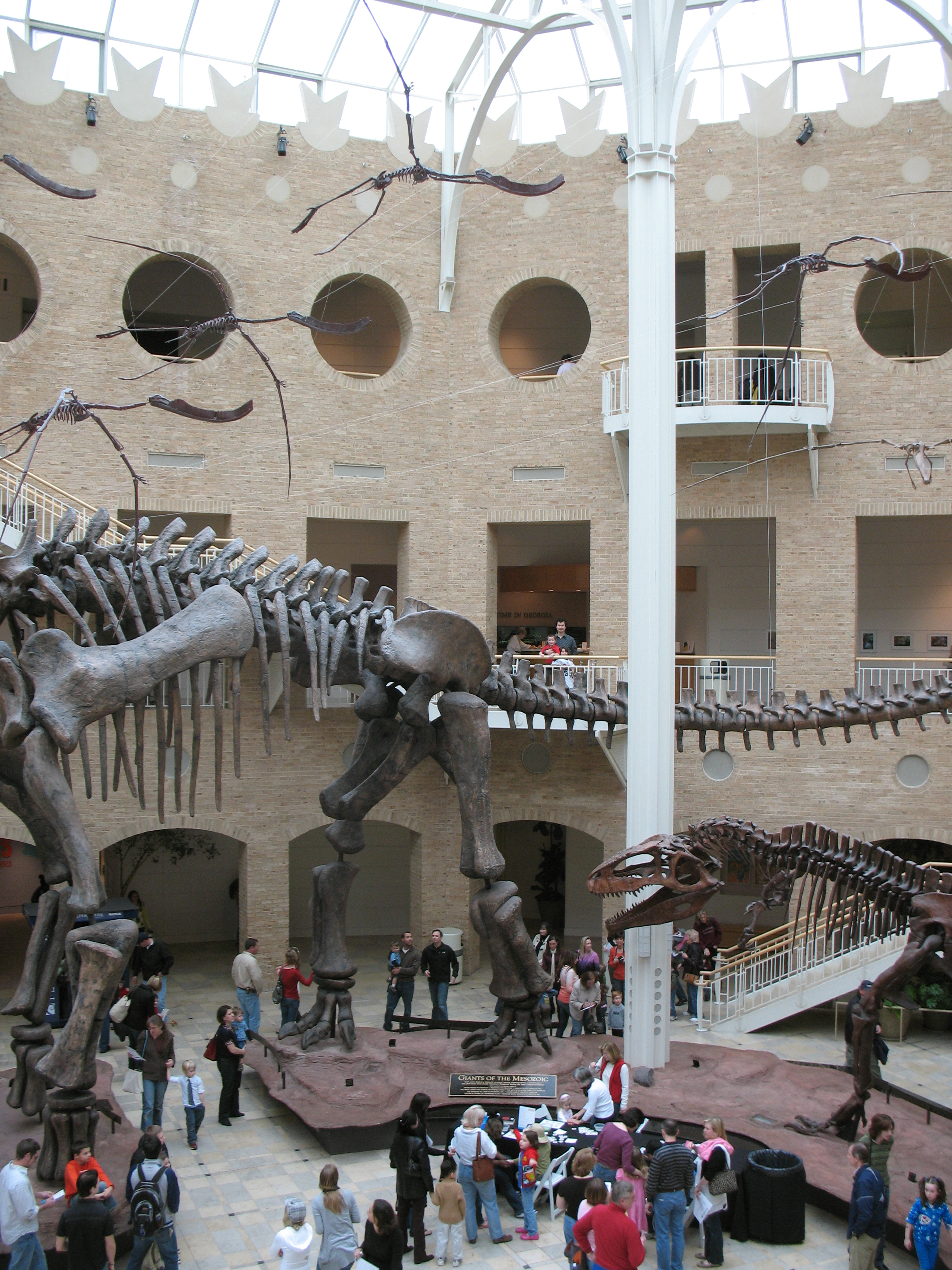 Interior of Fernbank, Atlanta